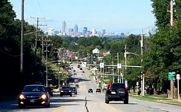 Cleveland Skyline from State Rd, Parma, Ohio, United States. Emphasizes Parma's location in relation to Cleveland as one of its nearby suburbs.